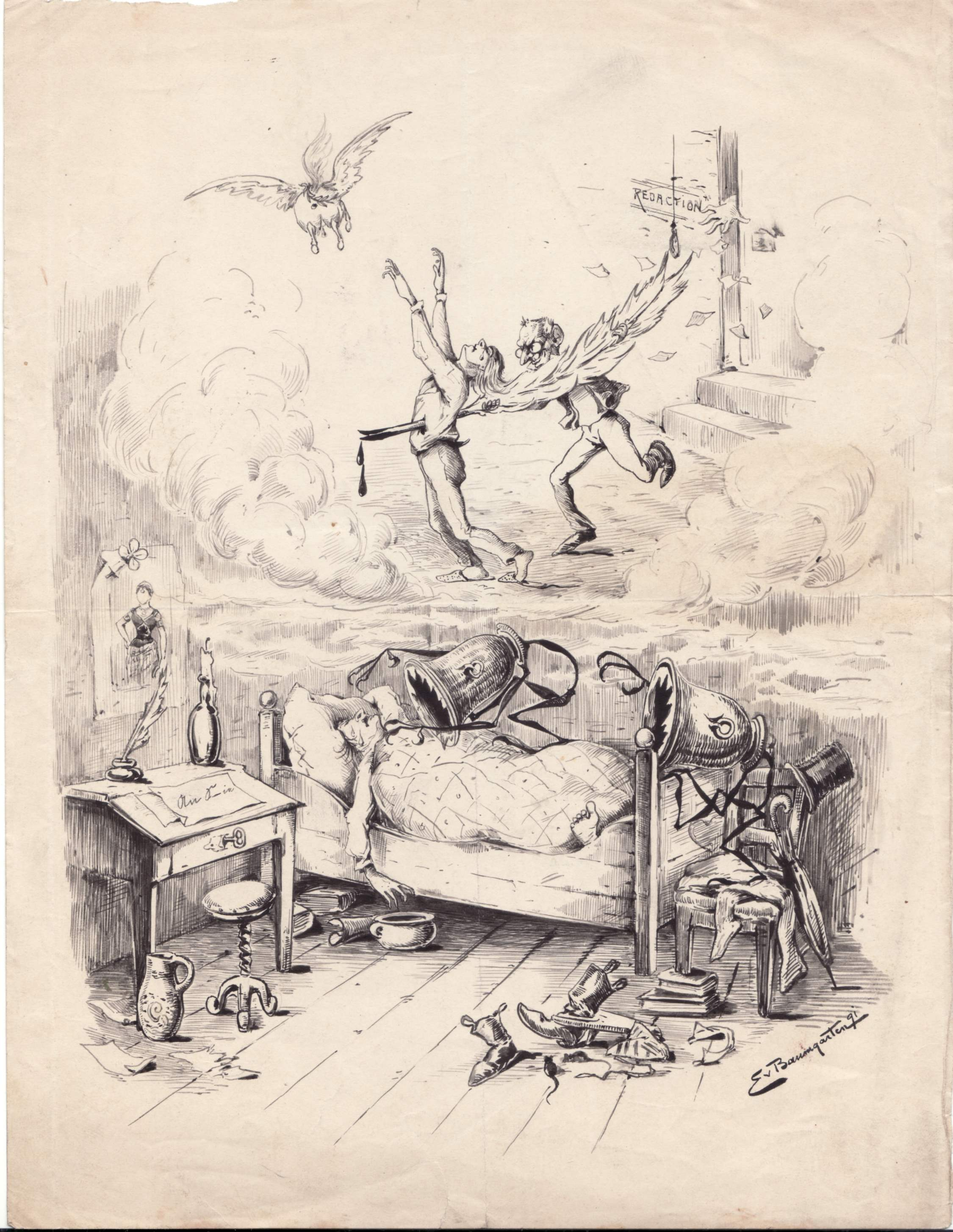 Caricature by German artist Eugen von Baumgarten